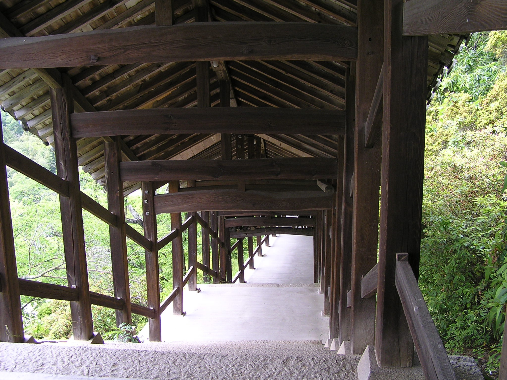 Corridor in Heratori Shinto shrine